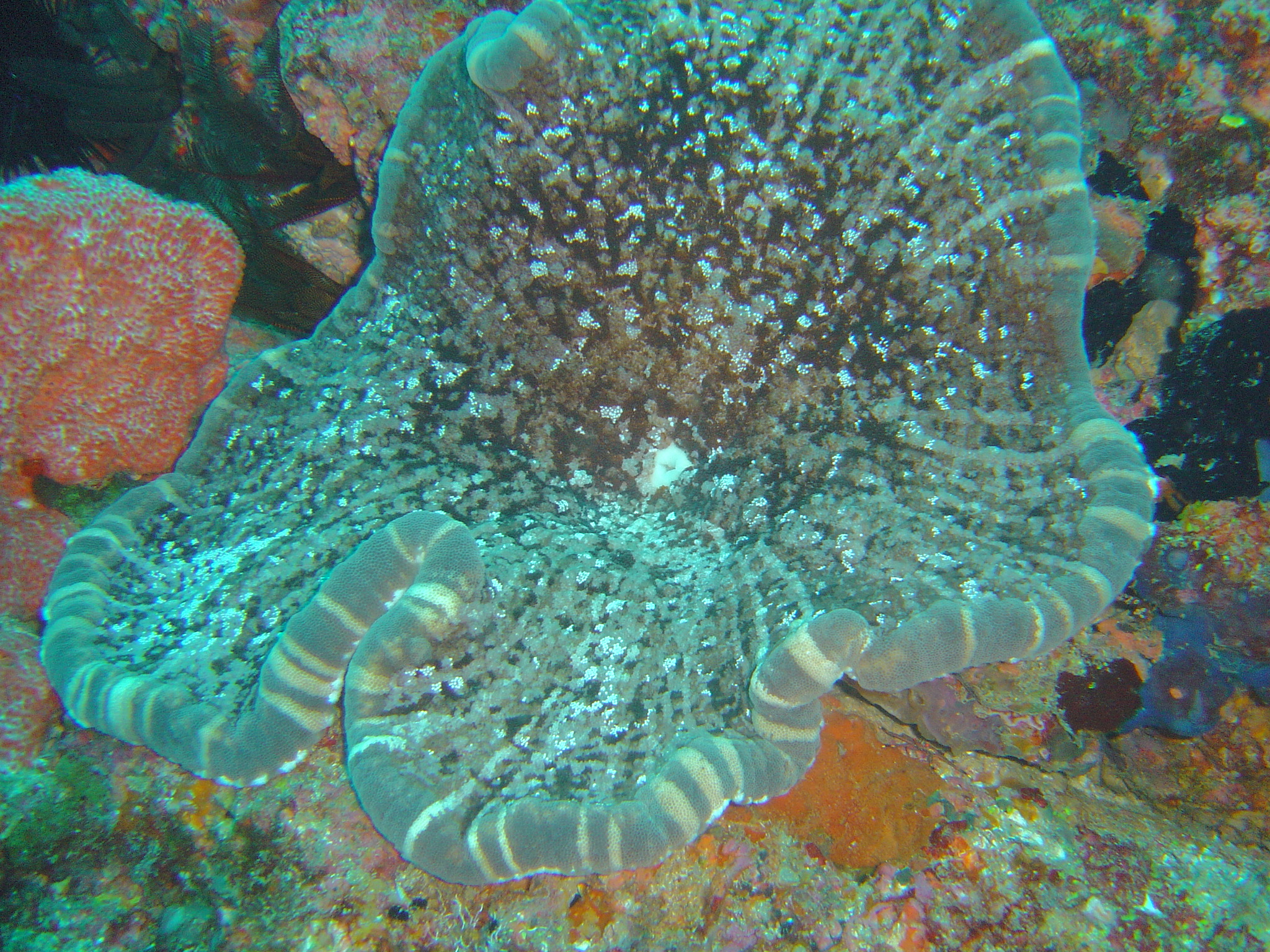 Corals at Manta reef, Guinjata Bay.